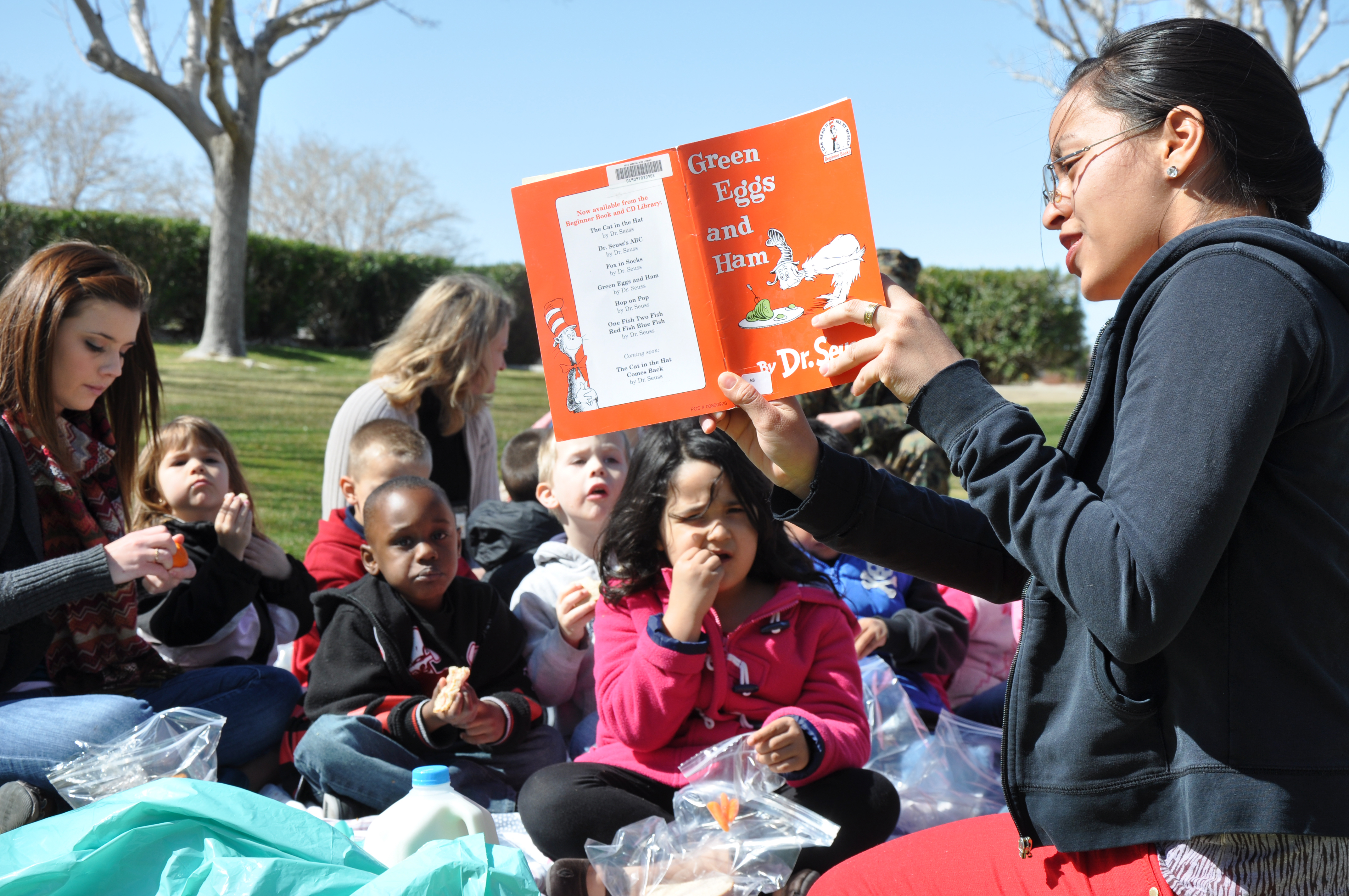 Taimane Mejia, a volunteer at McTureous Hall aboard Marine Corps Logistics Base Barstow, reads to children from the Child Development Center for the annual Dr. Seuss Birthday Bash March 2. During the event, children had stories read to them to help stress the importance of literacy at all ages and participated in other activites such as coloring and games.